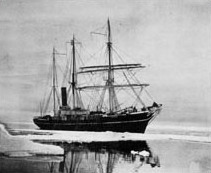 SY Aurora, Antarctic expedition ship